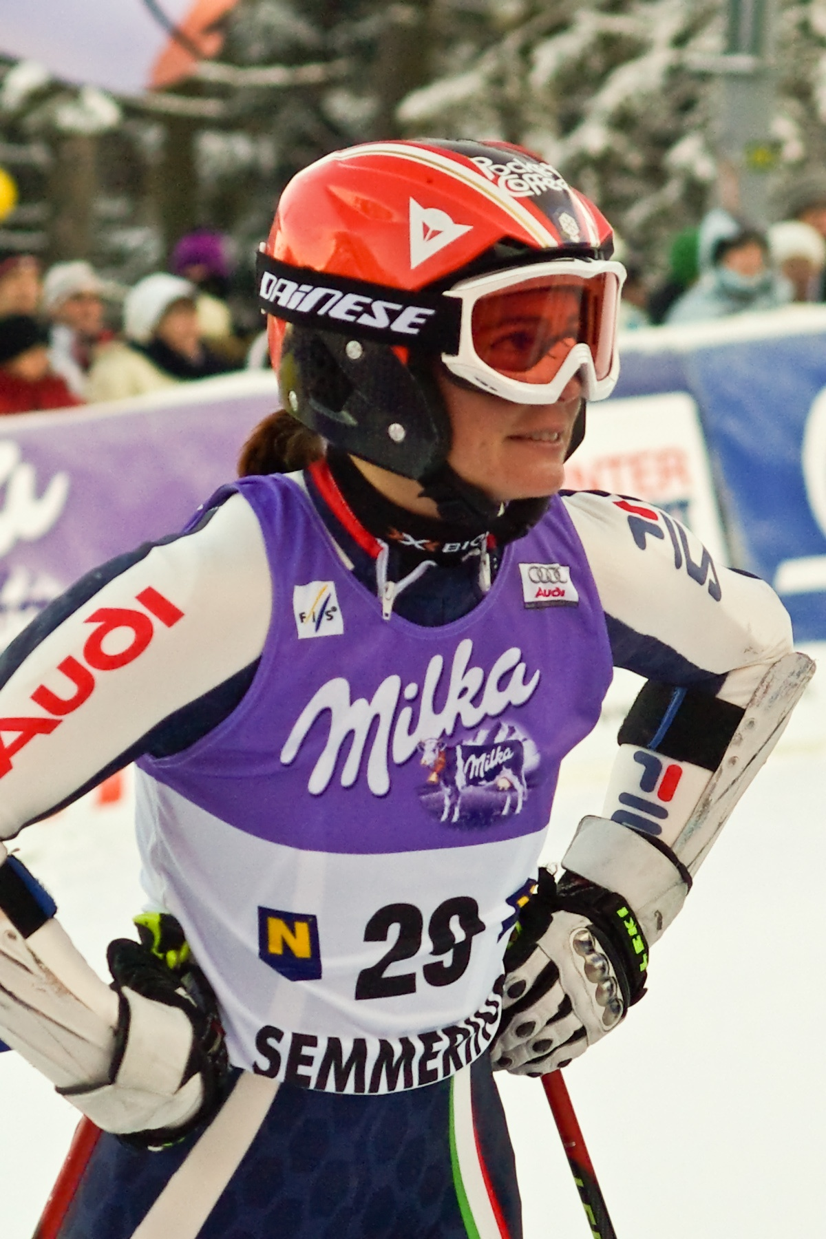 Italian alpine skier Karen Putzer after her second run in the giant slalom in Semmering (Austria) on 28 December 2008.